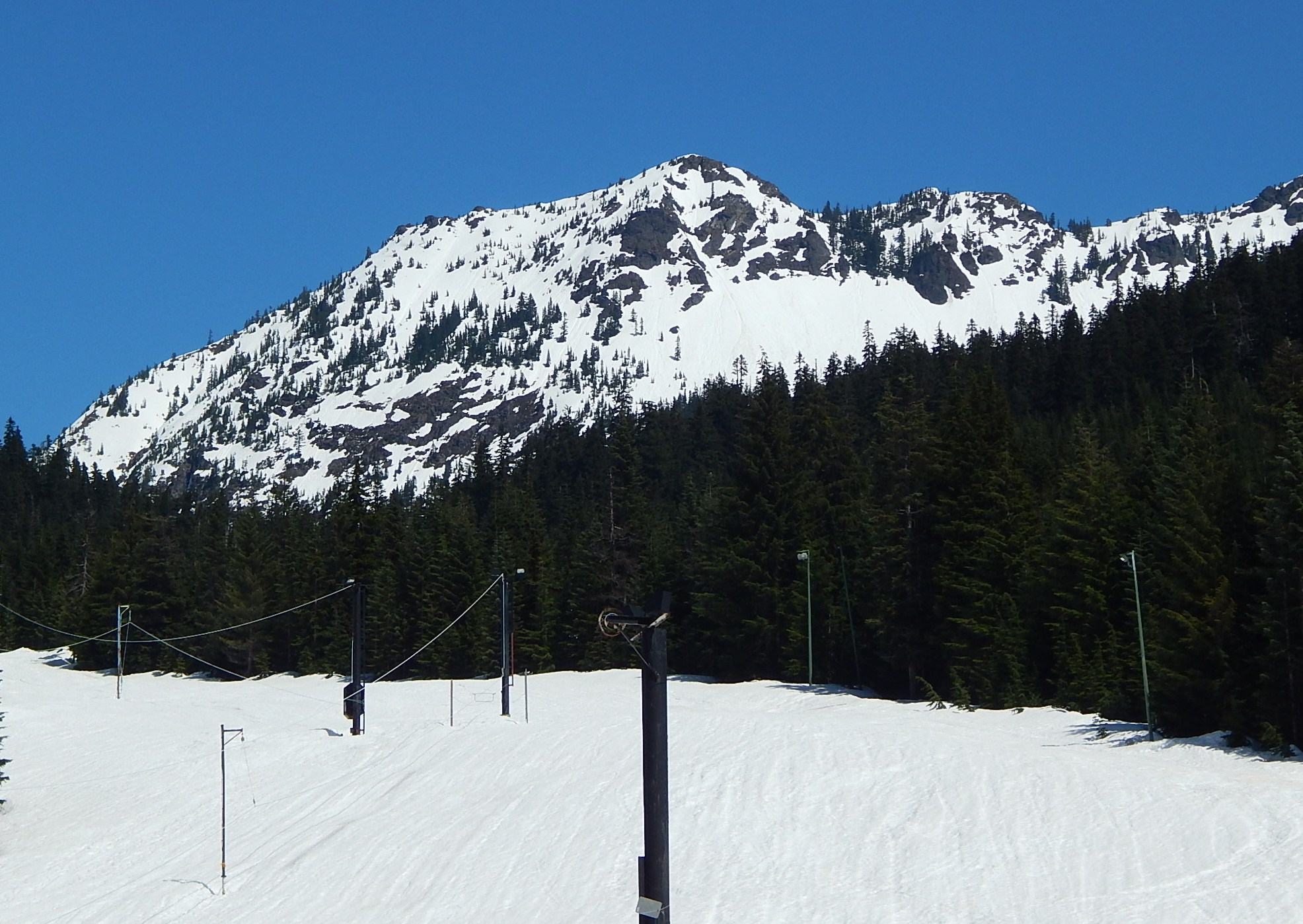 Kendall Peak seen from Sahalie Ski Club area on Alpental Road near Snoqualmie Pass